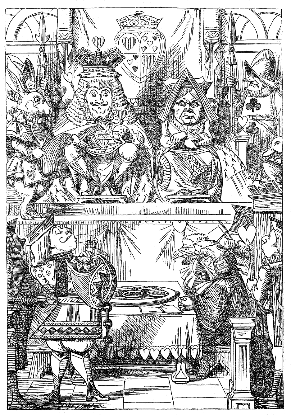 The King and Queen inspecting the tarts